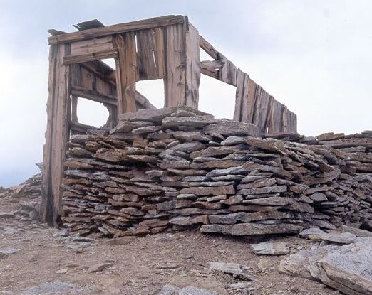 Fort Peabody in 1998, without roof or windows.